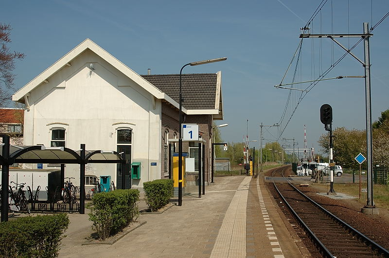 The railwaystation of Arkel.